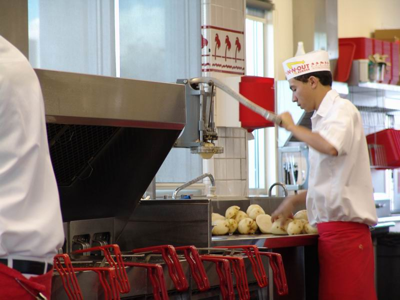 An In-N-Out Burger employee at 2900 West Sahara Avenue in Las Vegas, Nevada, USA cutting French fries from peeled potatoes. A row of deep fryers is to his left.